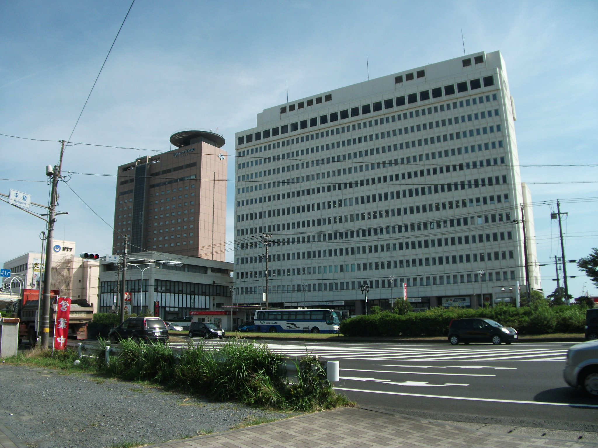 Kashima Central Hotel in Kamisu City, Ibaraki Prefecture, Japan